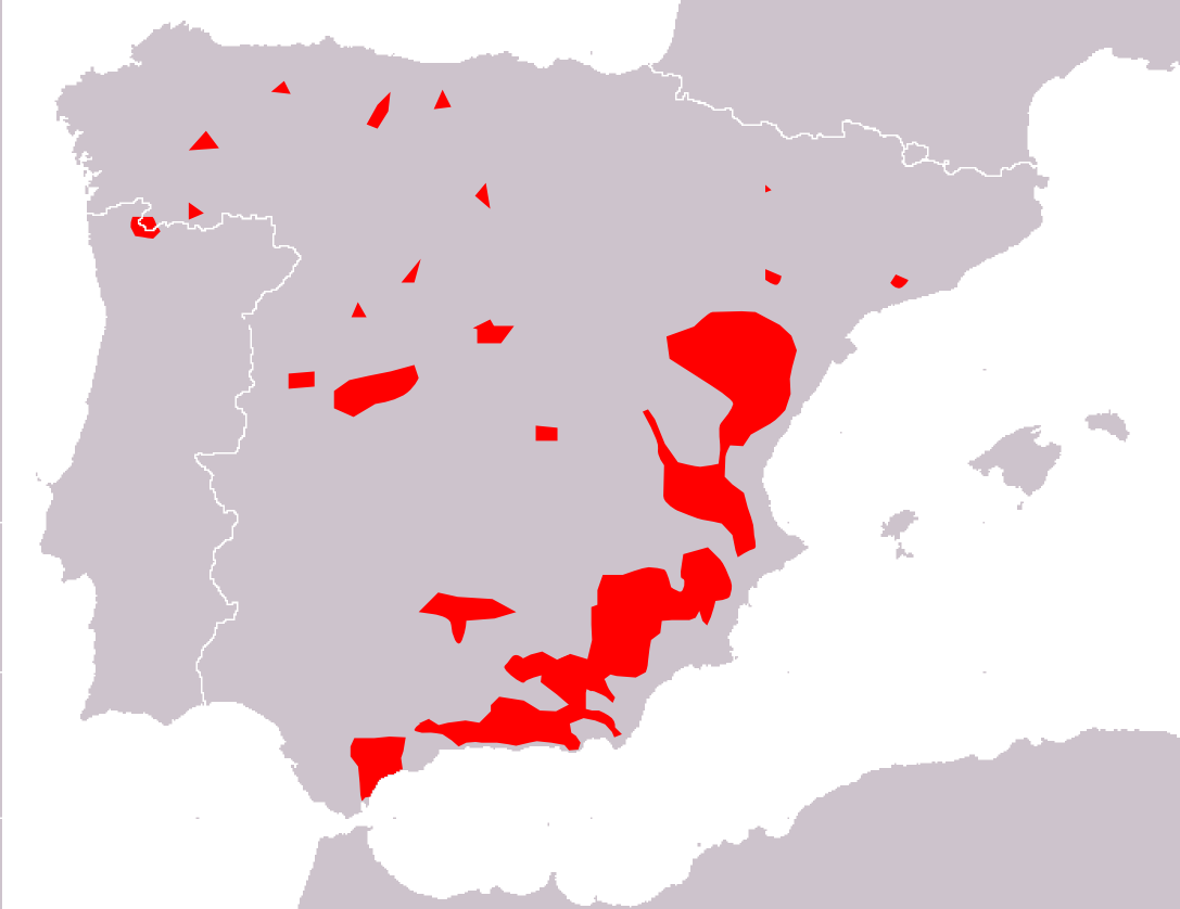 Capra pyrenaica range map.